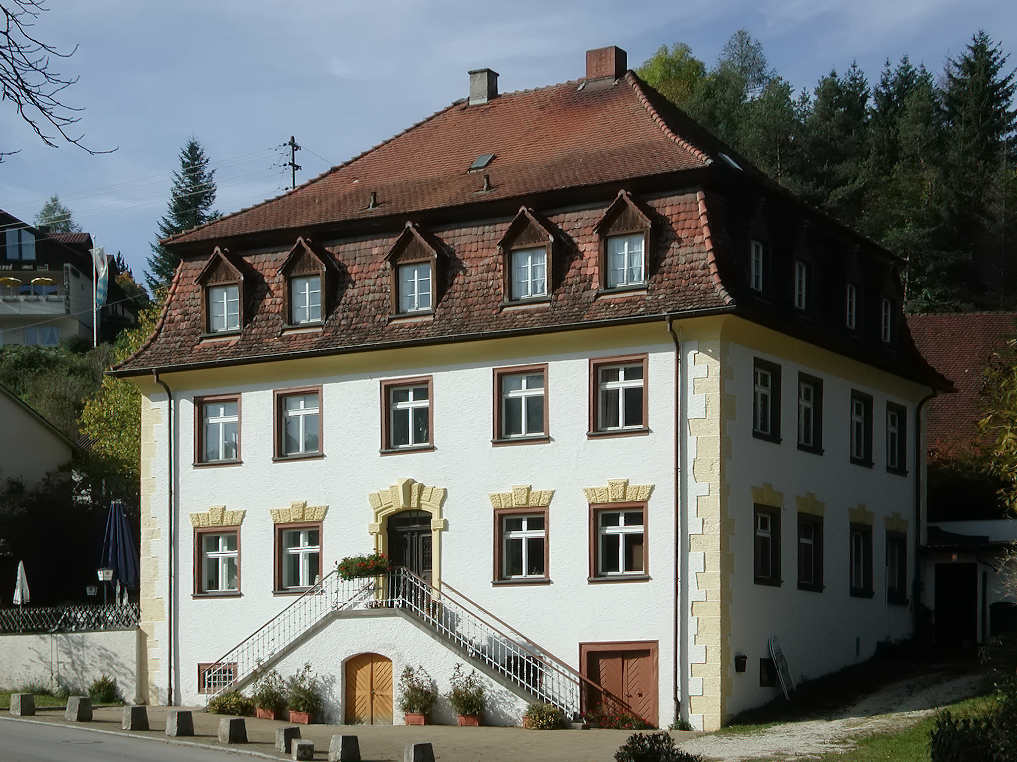 Historical building „Hammer“ in Thiergarten, Germany, serving as a youth hostel